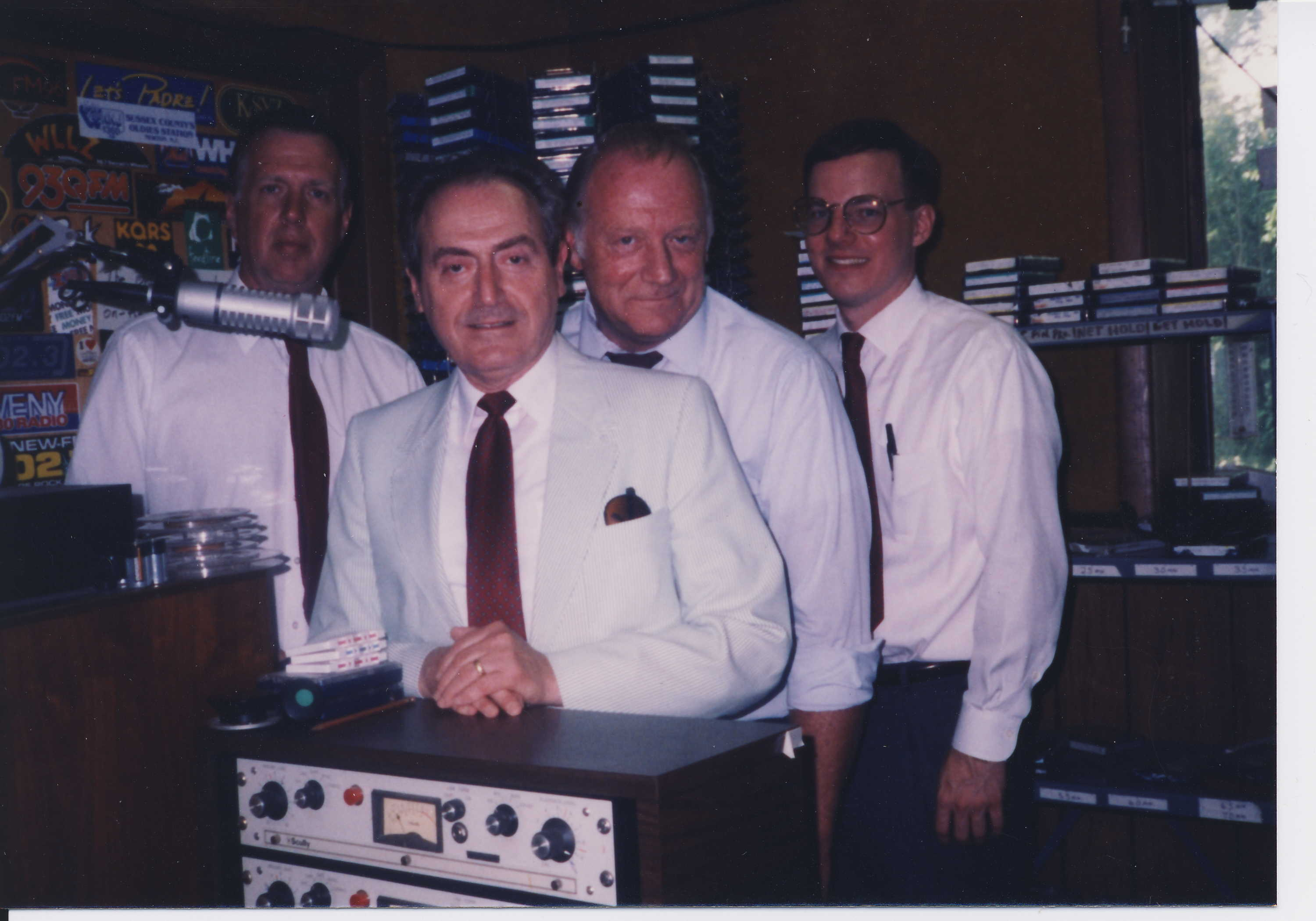 A 1988 photo of members of the North Jersey Rail Commuter Association, Penn-Jersey Rail Coalition and Monroe County Railroad Authority (Pennsylvania) before going on the air at the radio station, Oldies 103, in Blairstown.